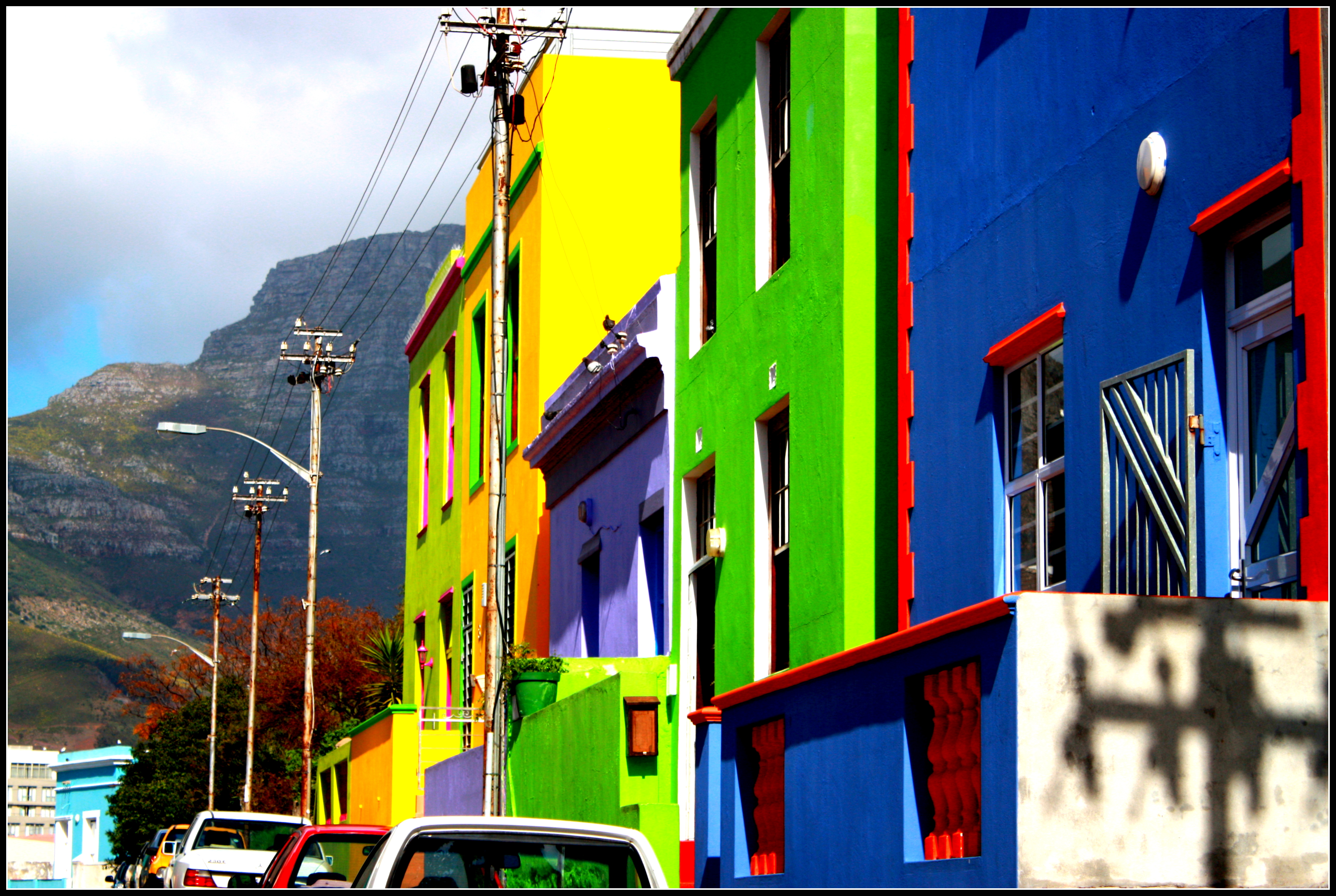 Bo-Kaap This media shows a South African Protected Site with SAHRA file reference 9/2/018/0008.